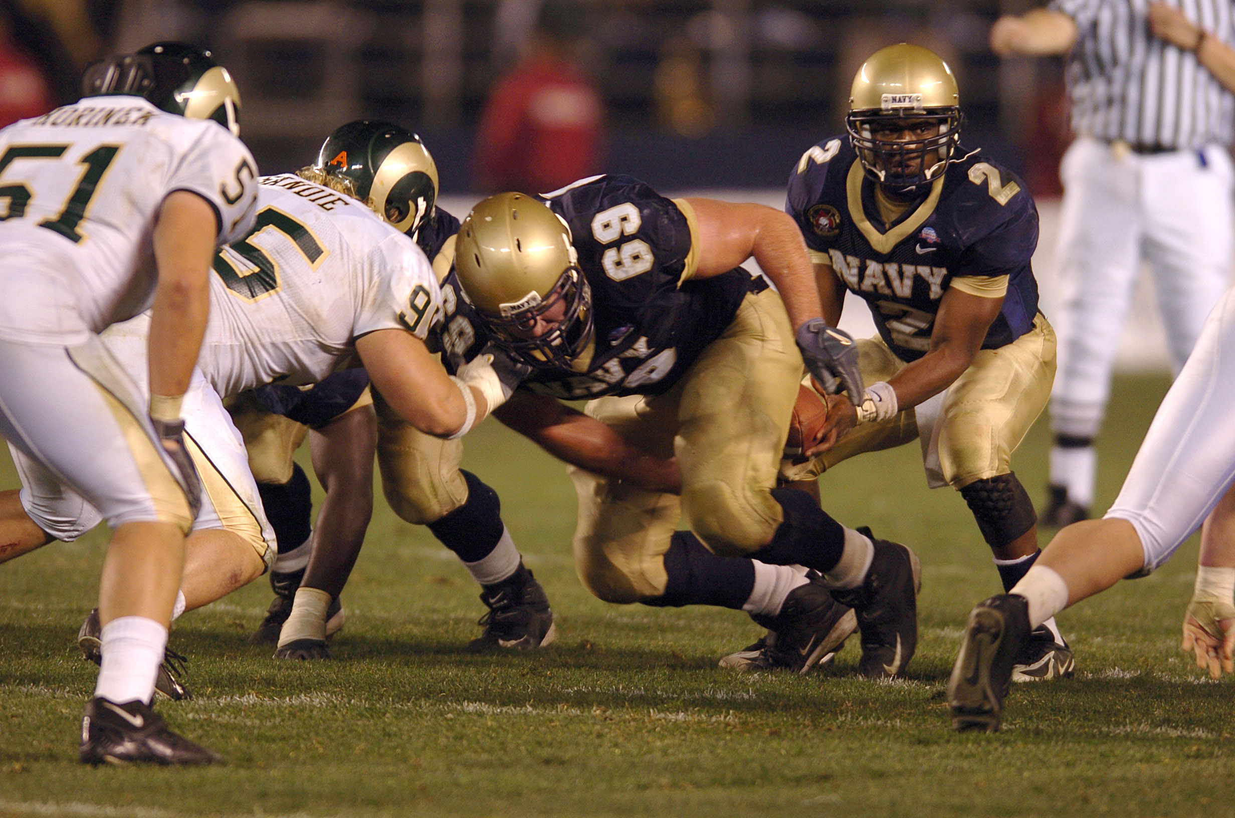 U.S. Naval Academy center James Rossi snaps the ball to Quarterback Lamar Owens during the inaugural Poinsettia Bowl.